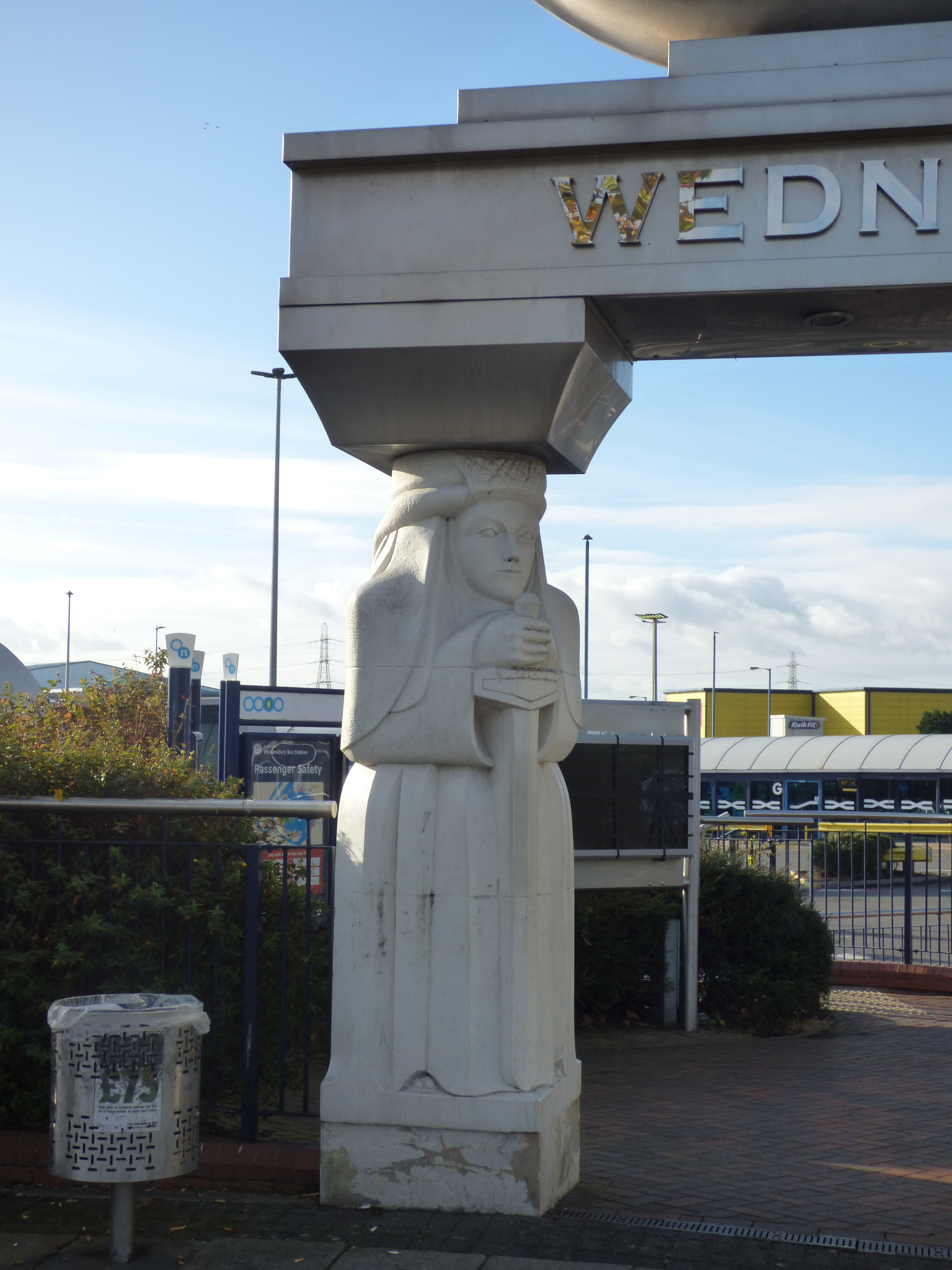 A look at Wednesbury Bus Station. It is close to the Morrisons supermarket. Located at Dudley Street and Holyhead Road. It's also quite close the outdoor market. Wednesbury Bus Station is a bus interchange in the town of Wednesbury, in the West Midlands region of England. It is managed by Network West Midlands. Local bus services operated by various bus companies serve the bus station which has 12 departure stands. The Midland Metro tram line stop at Wednesbury, Great Western Street is a short walk away. The rebuilt bus station opened in October 2004 as part of a major regeneration of the south side of Wednesbury town centre, which was completed three years later when a new Morrisons supermarket opened adjacent to the bus station. The Caryatid Gateway features two carved stone caryatids, one male and one female, each representing different aspects of Wednesbury history. The female figure represents Æthelflæd, daughter of King Alfred, who fortified Wednesbury against the Danes. The male figure represents a tube maker, Wednesbury being famous for the manufacture of tubes, the process having been patented in the nineteenth century by Cornelius Whitehouse. The tube reference is continued in the polished stainless steel inverted tubular arch 'carried' by the caryatids.